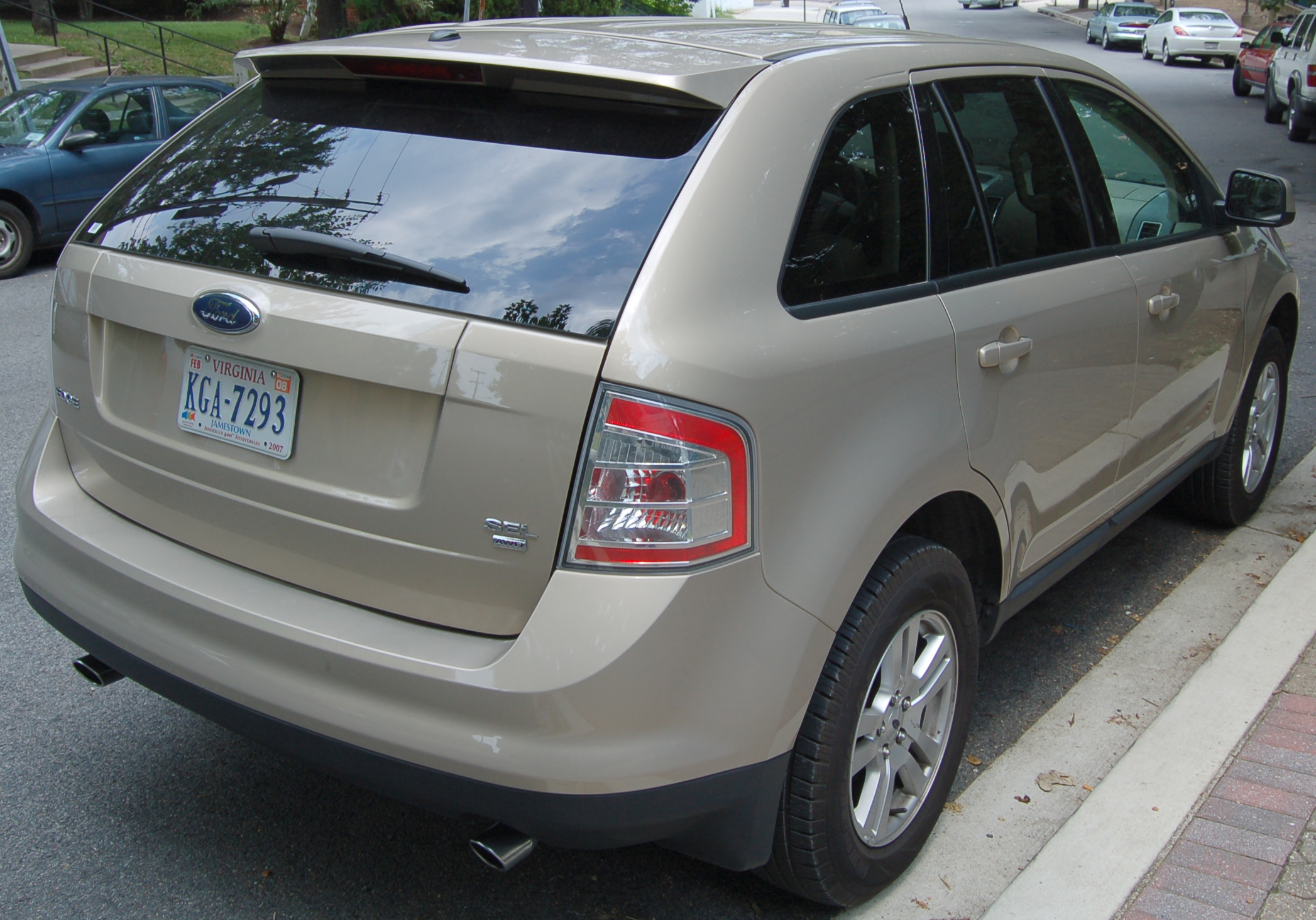 Ford Edge SEL in the United States.